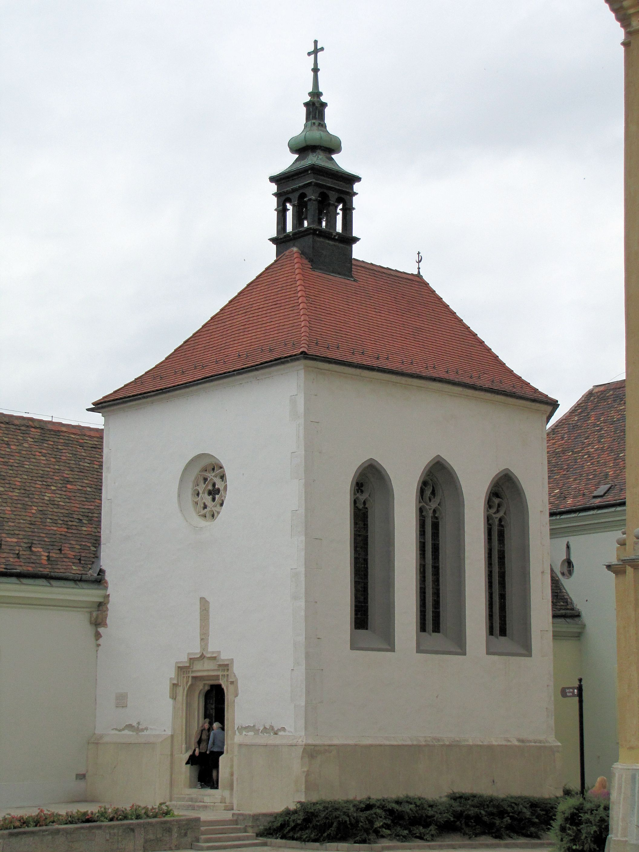 St Anne Chapel, Székesfehérvár, Hungary.